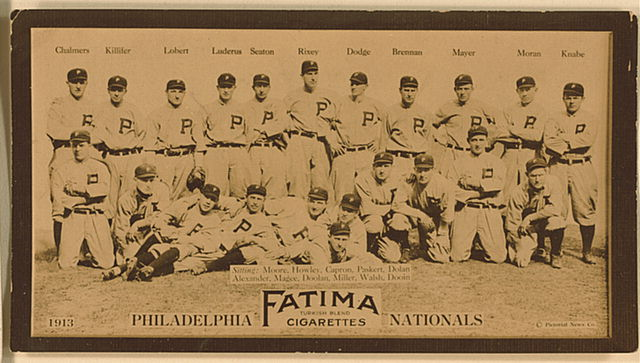 1913 Philadelphia Phillies